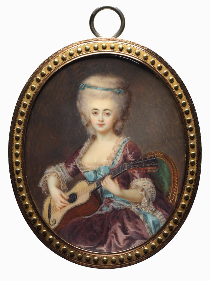 Portrait of a Woman with a Guitar, called Louise D'Aumont, Mazarin, Duchesse d'Aumont